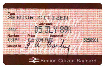 Second APTIS version of the Senior Citizen Railcard, with dark pink security background and dark brown bands. Scanned from my own collection.